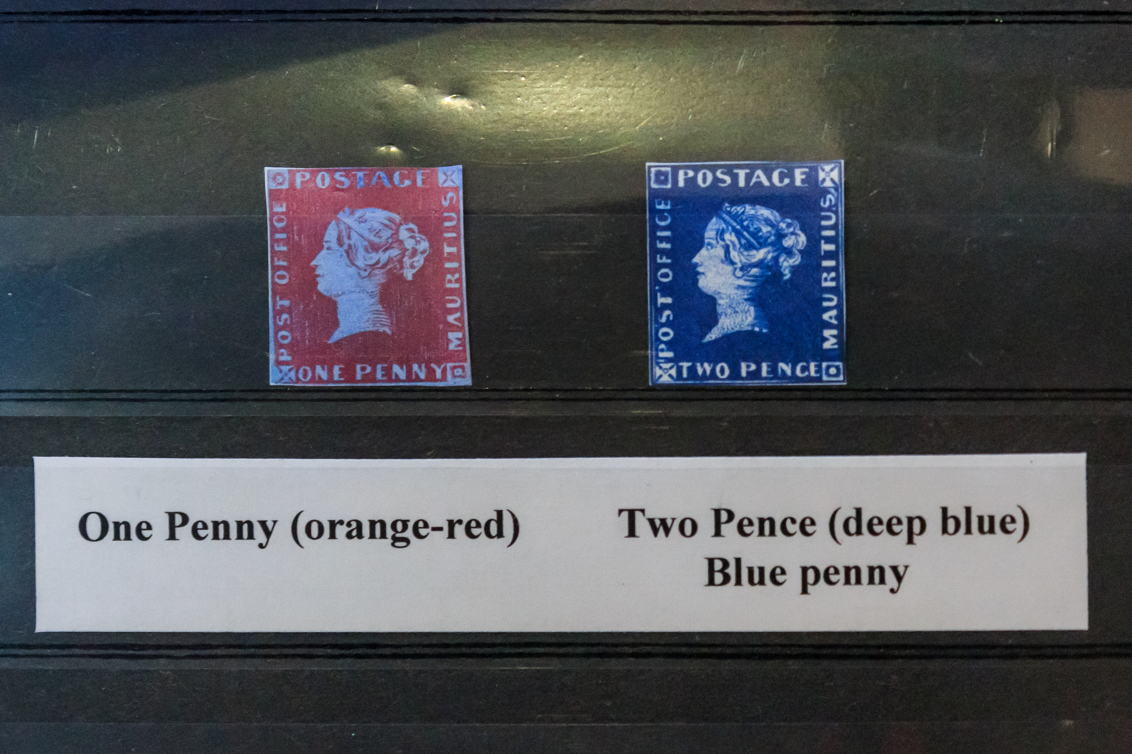 St. Louis, Mauritius: The famous one penny and two pence stamps of Mauritius. Displayed in the Mauritius Postal Museum